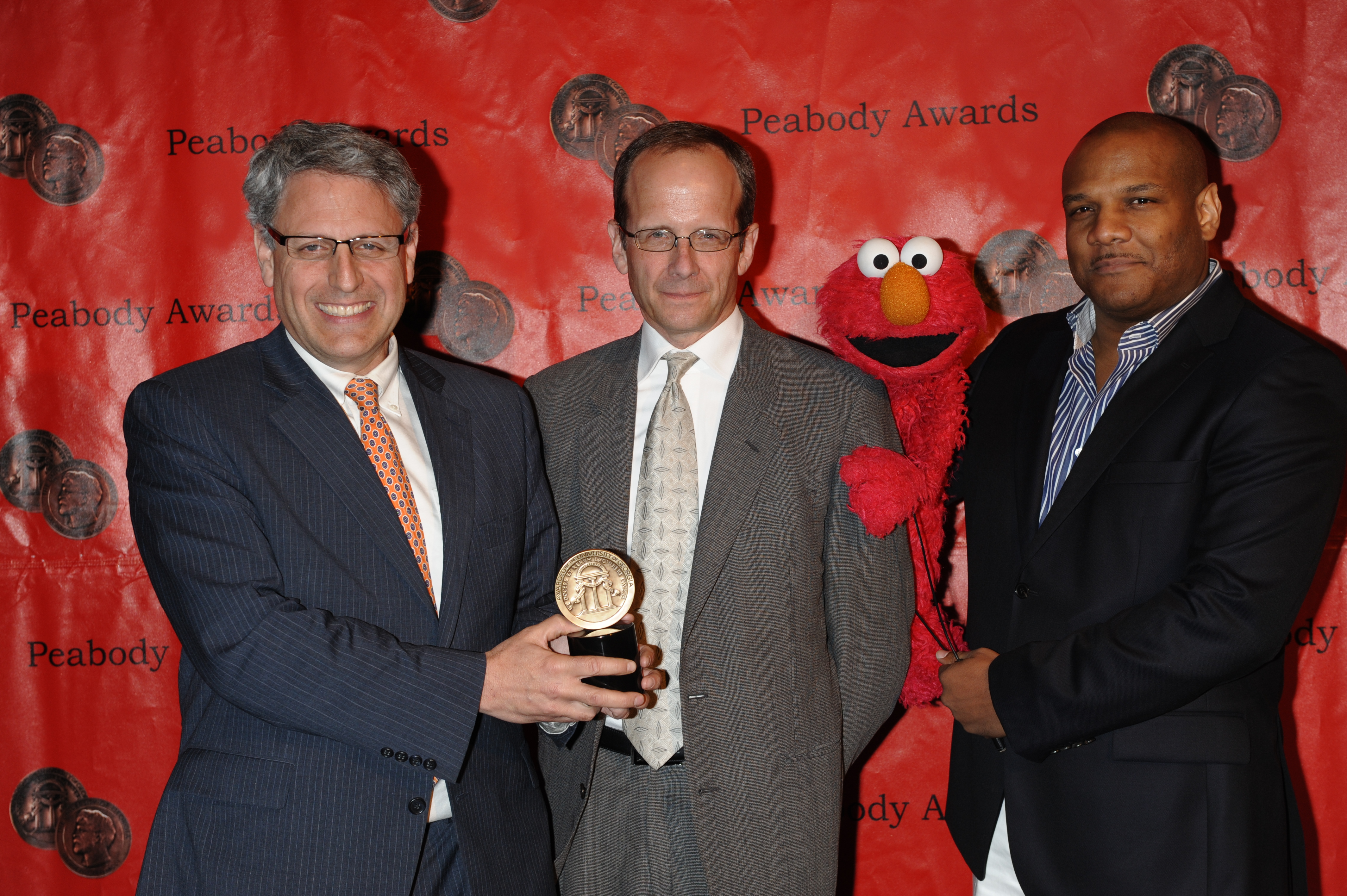 Gary Knell, Terry Fitzpatrick, Elmo and Kevin Clash for 69th Annual Peabody Awards Luncheon Waldorf=Astoria Hotel New York, NY USA May 17, 2010